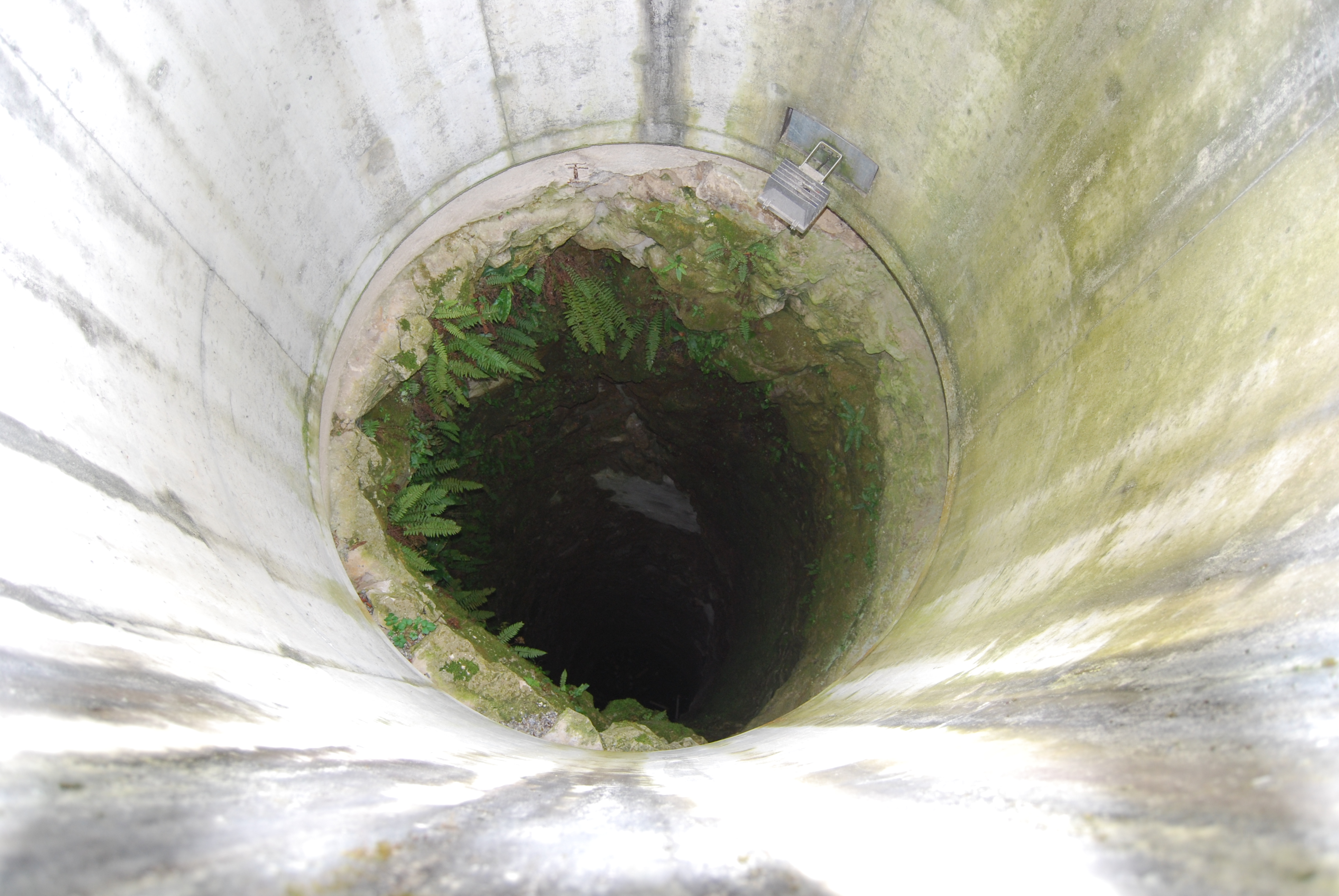 Fountain of the Castle Habsburg, canton of Aargau, SwitzerlandEsperanto: Puto de la Kastelo Habsburgo, Kantono Argovio, Svislando